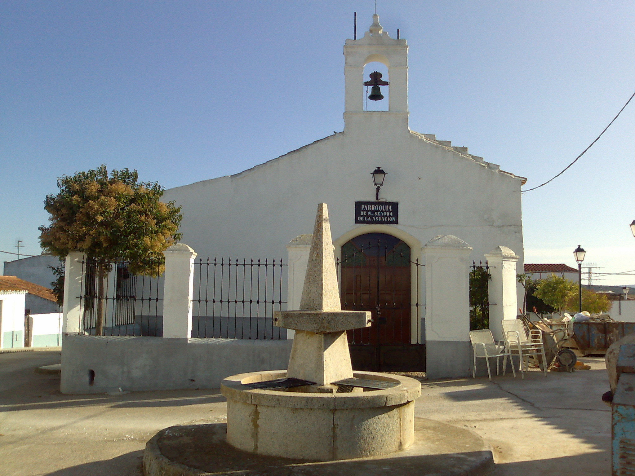 Vila Real (Olivença)